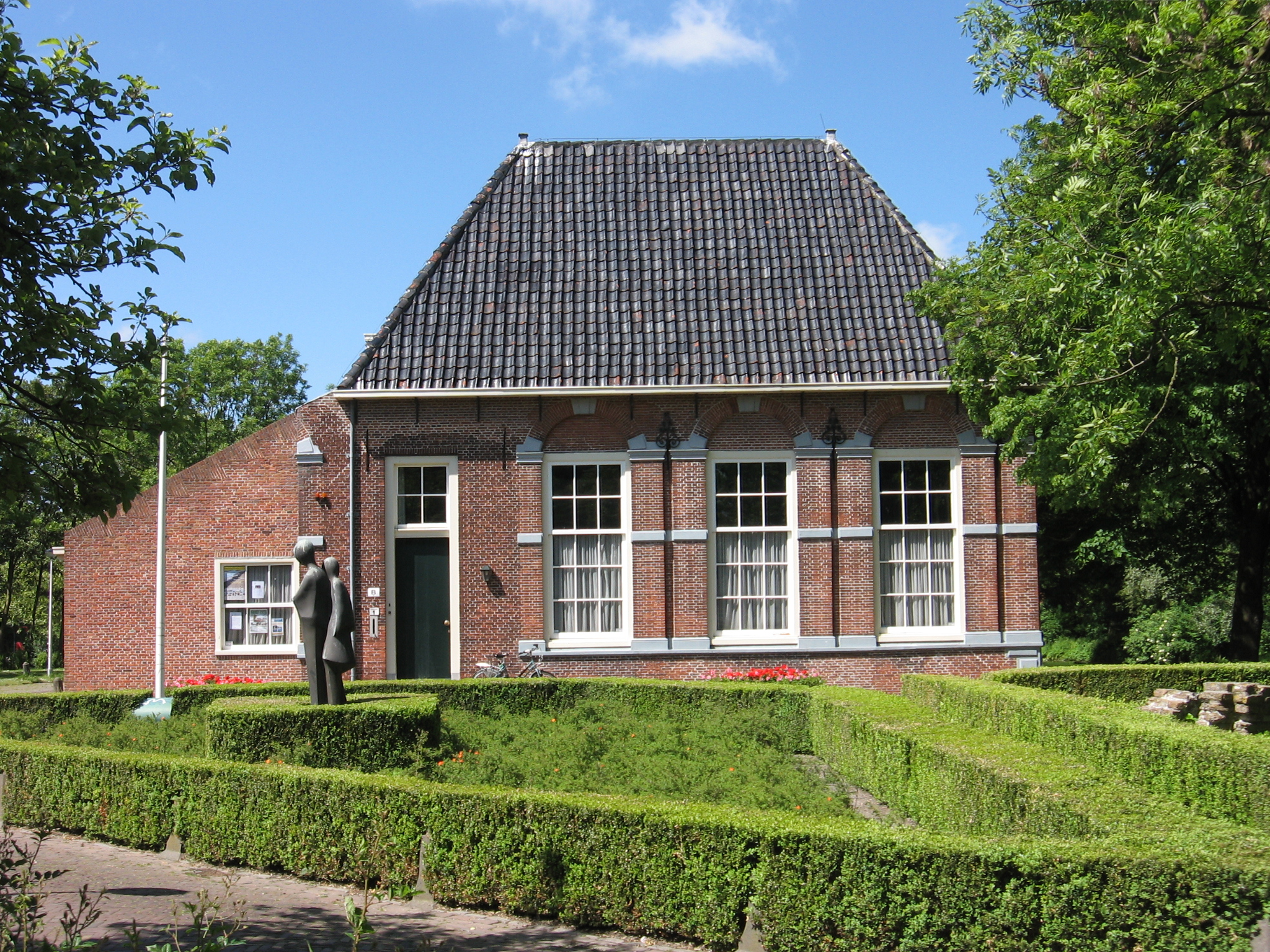 Hoflaan 1, Wateringen